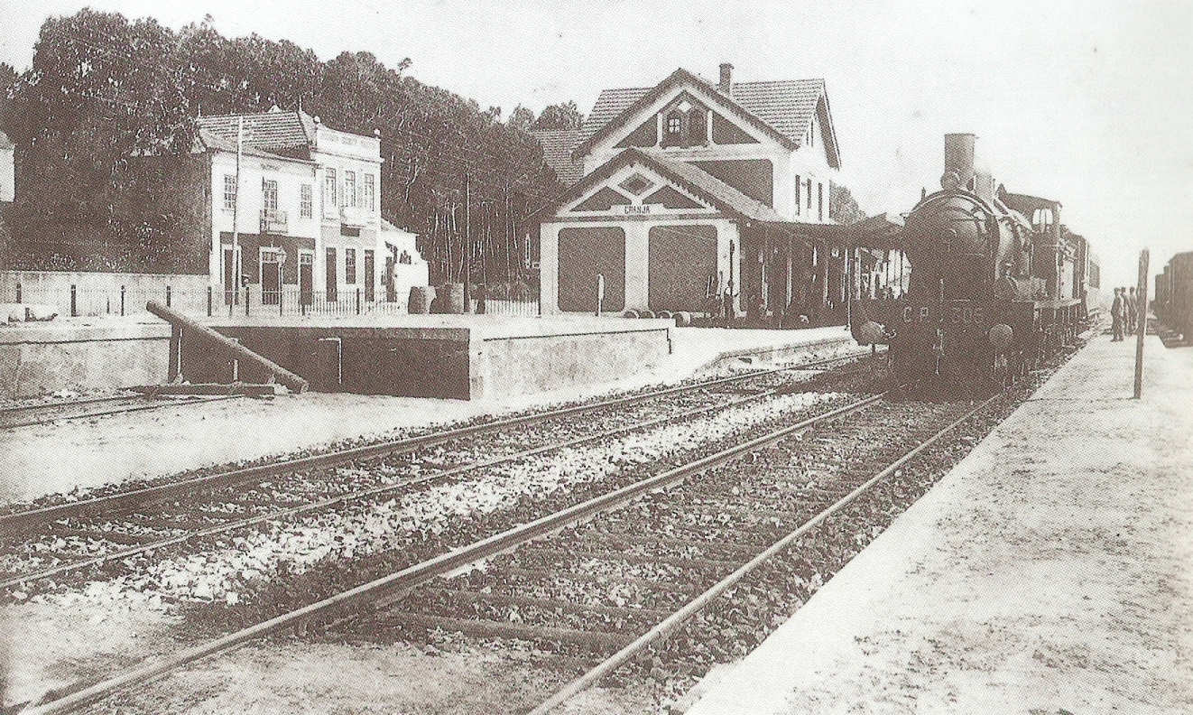 Granja Railway Station, of the Norte Railway, in Portugal. The building in the photograph was demolished and replaced by a new one in 1914.